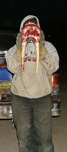 Les shows off his walrus tusk in Sanikiluaq.